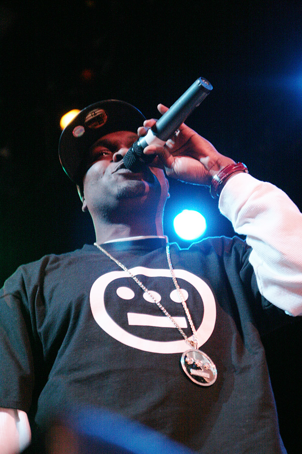 Casual of Hieroglyphics drops an enlightened verse on the crowd during a February 18, 2006, concert in the BMU Auditorium at Chico State University.